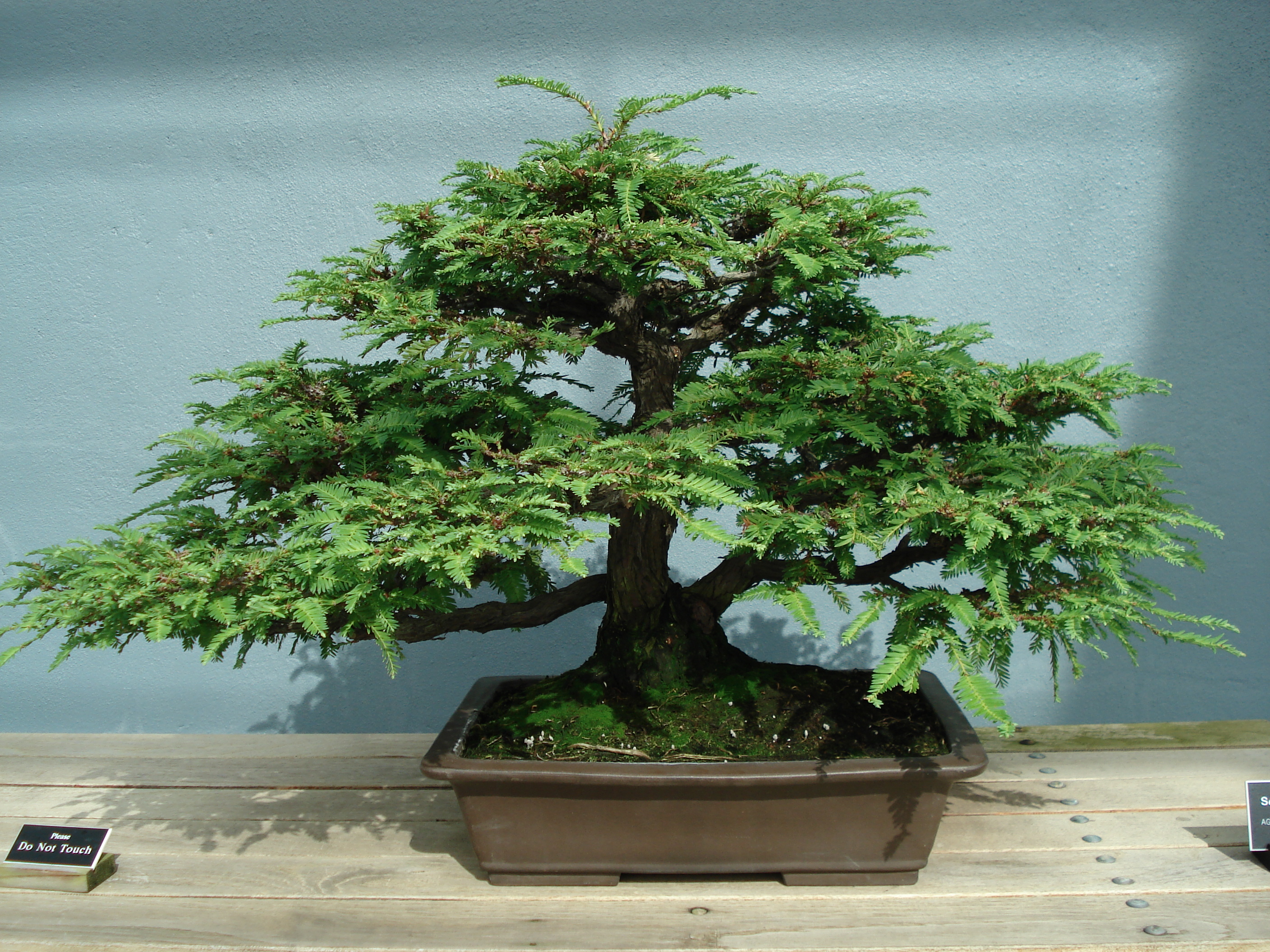 55 year old Sequoia sempervirens (California Redwood or Coast Redwood) "Informal Upright" style bonsai tree from Brooklyn Botanic Garden, in New York City. Copyright 2007 Jeffrey O. Gustafson, released to Commons under the GFDL and CC-BY-SA-3.0.